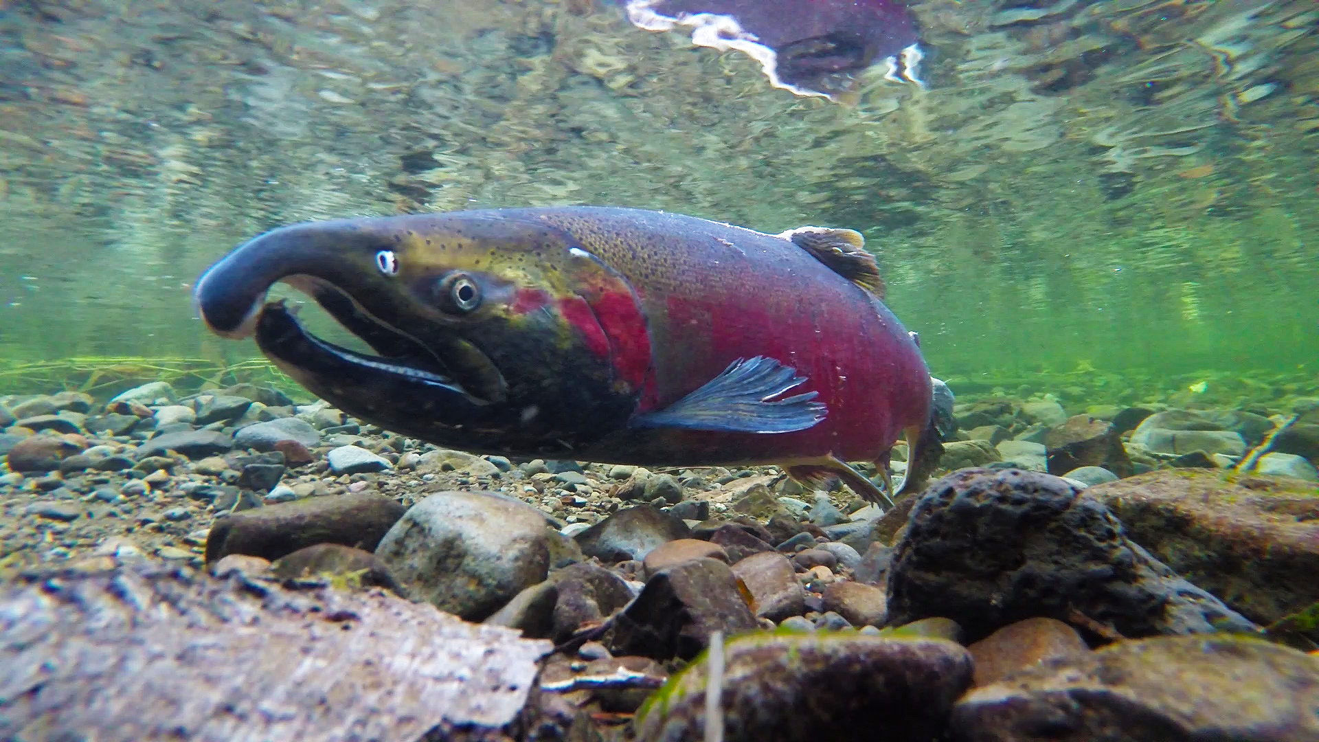 The rivers, streams, and lakes of Oregon and Washington are home to a diverse array of fish species and the BLM is committed to the restoration and protection of the aquatic habitat the fish are dependent on. Salmon and trout species found on BLM-managed lands include bull trout, westslope cutthroat trout, Yellowstone cutthroat trout, Lahontan cutthroat trout, redband trout, steelhead trout, and chinook and sockeye salmon. Five of these species (bull trout, Lahontan cutthroat trout, steelhead trout, chinook salmon, and sockeye salmon) are on the Endangered Species Act list in all or portions of their distribution. The BLM addresses the management of fish and their habitat in District Resource Management Plans and through such initiatives as the Northwest Forest Plan, PACFISH and InFish. The BLM is also a member of the Federal Caucus, which is a group of nine federal agencies with management responsibilities for listed fish species. The Caucus works together to improve interagency coordination and management of all the factors that influence fish survival: habitat, hatcheries, harvest, and hydropower operations. This photo was taken in November 2014 while conducting a coho spawning survey on the Salmon River in northwest Oregon. To learn more about BLM’s fisheries program head on over to: See these fish in action over at our YouTube channel